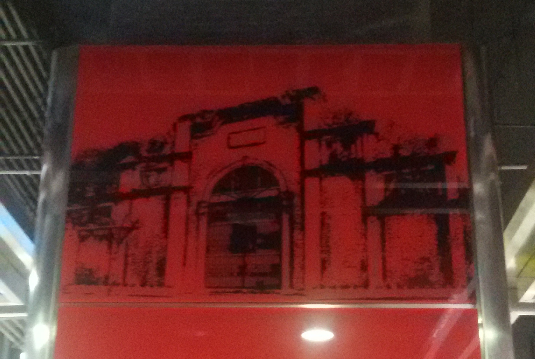 Cultural Decoration on PILLAR at Tuanyida Square Station in Guangzhou Metro. 粵語: 廣州地鐵，團一大廣場站嘅柱面裝飾